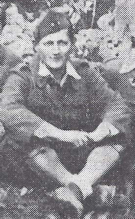 Janez Učakar (1918–1995)